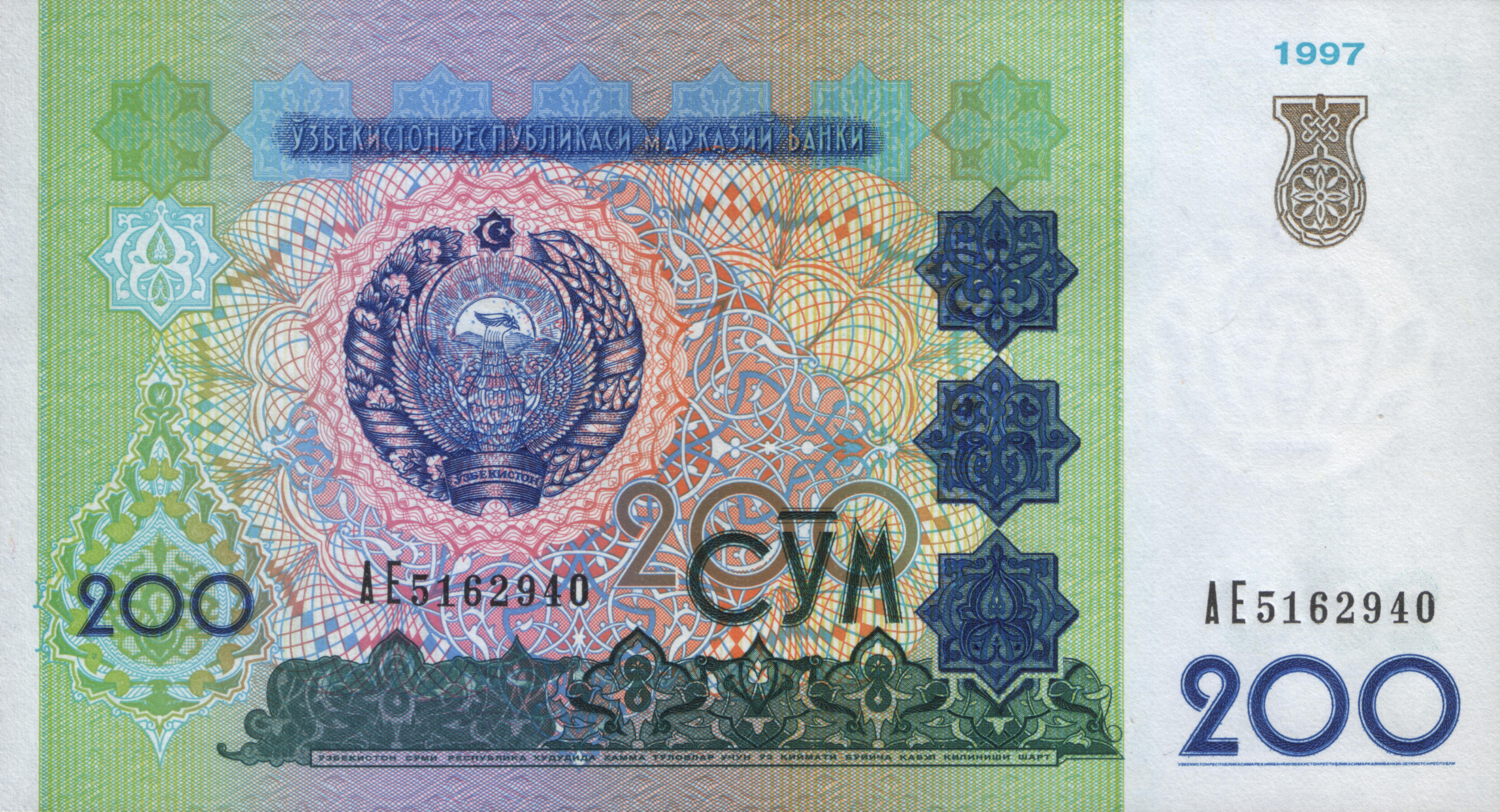 200 sum of Uzbekistan (1997)